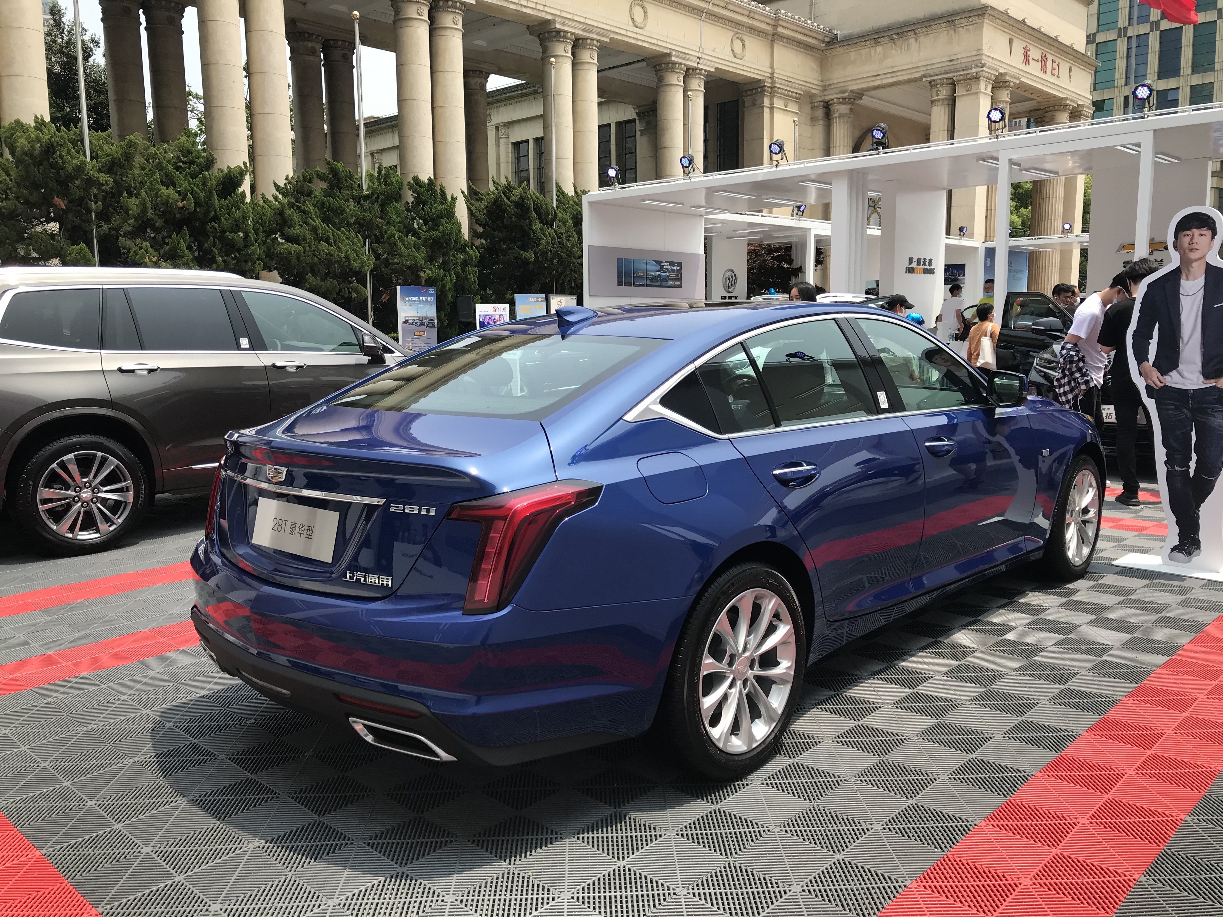 Cadillac CT5